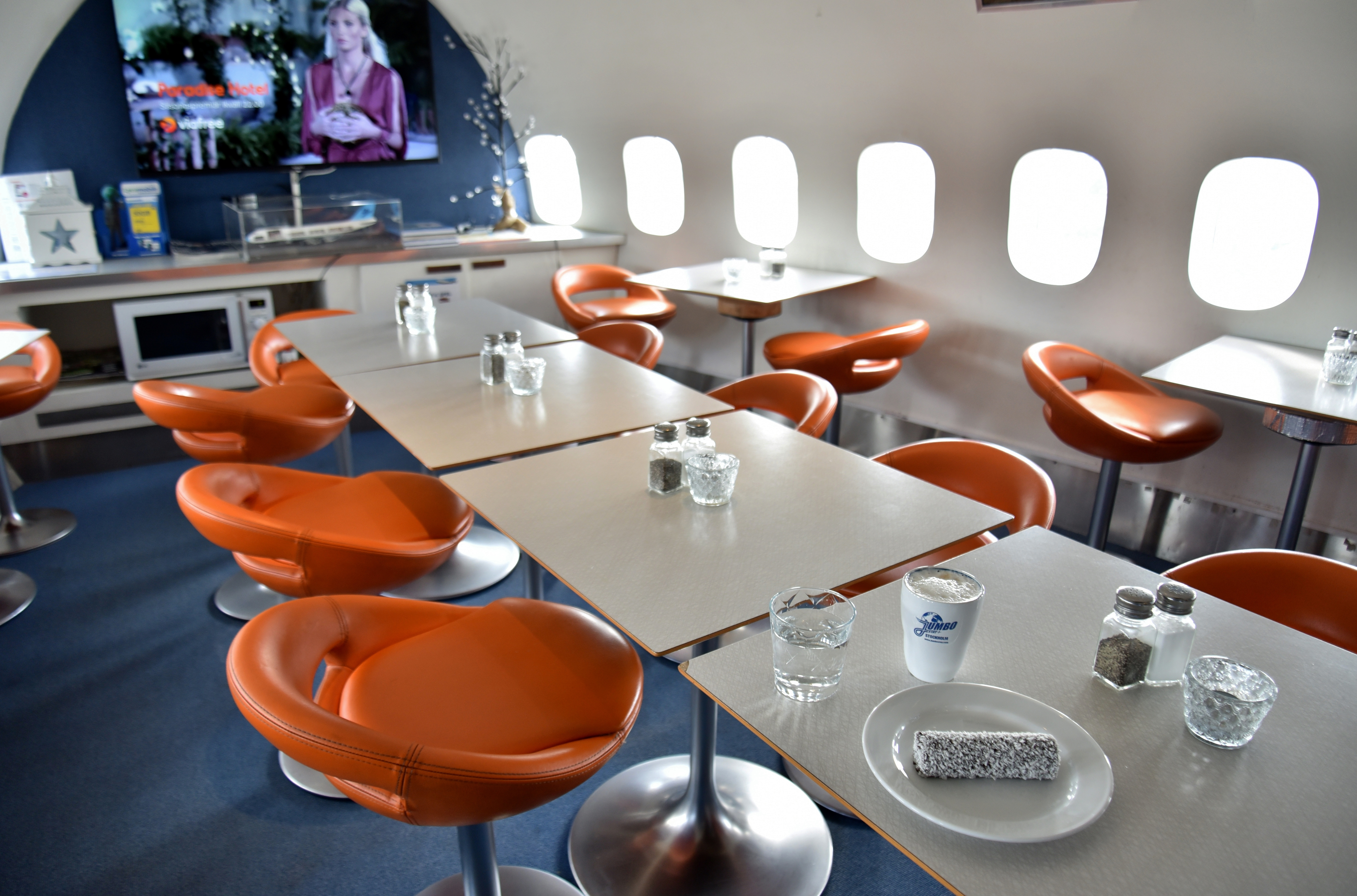 Interior view of Jumbo Stay, an unconventional hotel housed in a retired Boeing 747 at Stockholm Arlanda Airport, Sweden